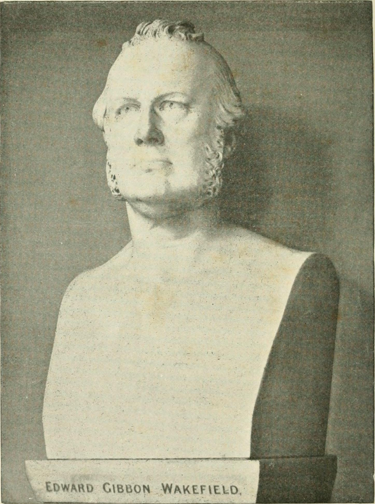 Image from page 5 of "New Zealand rulers and statesmen from 1840 to 1897" (1897) Identifier: newzealandrulers00gisb Title: New Zealand rulers and statesmen from 1840 to 1897 Year: 1897 (1890s) Authors: Gisborne, William, 1825-1898 Subjects: New Zealand -- History New Zealand -- Biography Publisher: London : S. Low, Marston